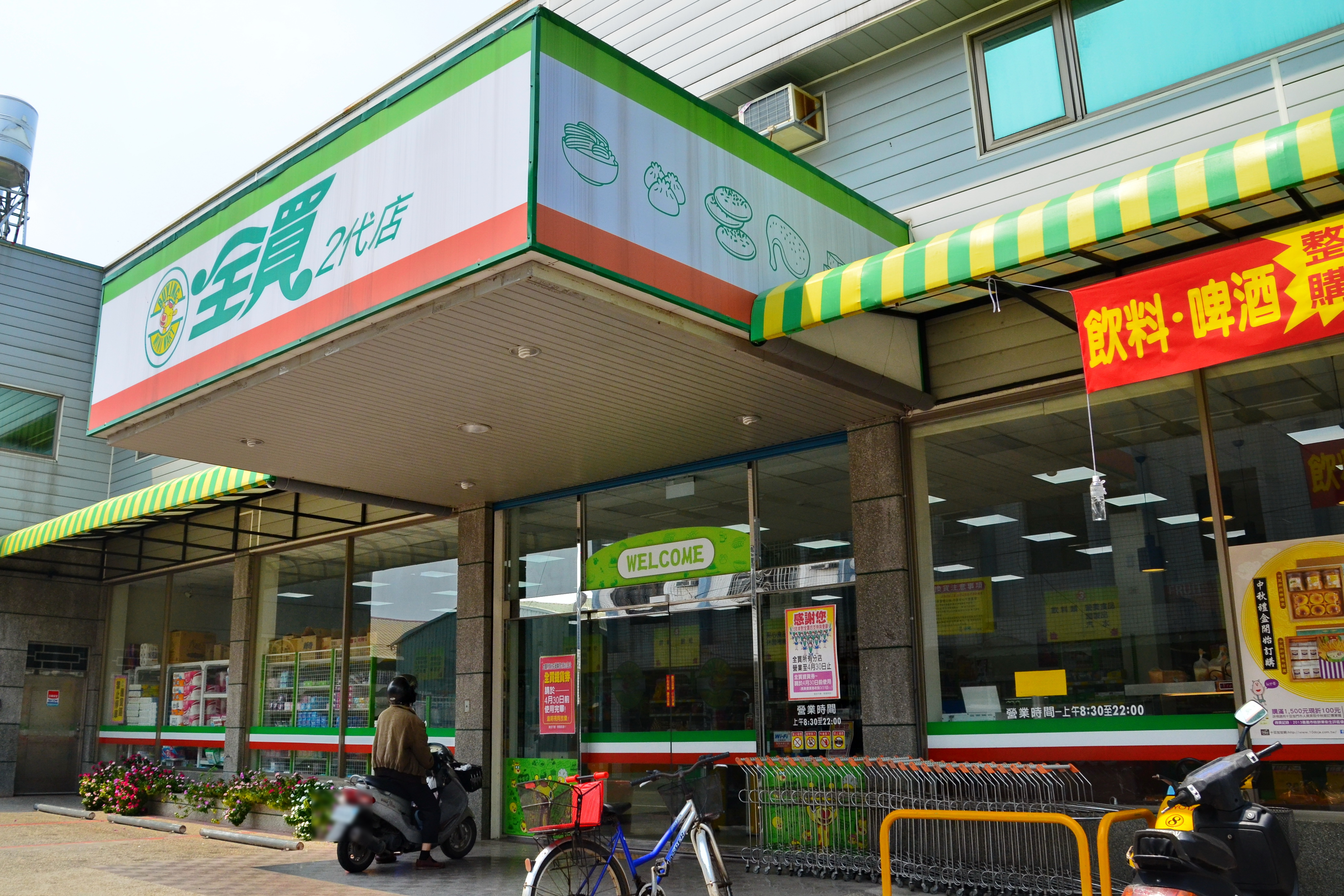 OBuying Mart, Dalin, Chiayi County, Taiwan.